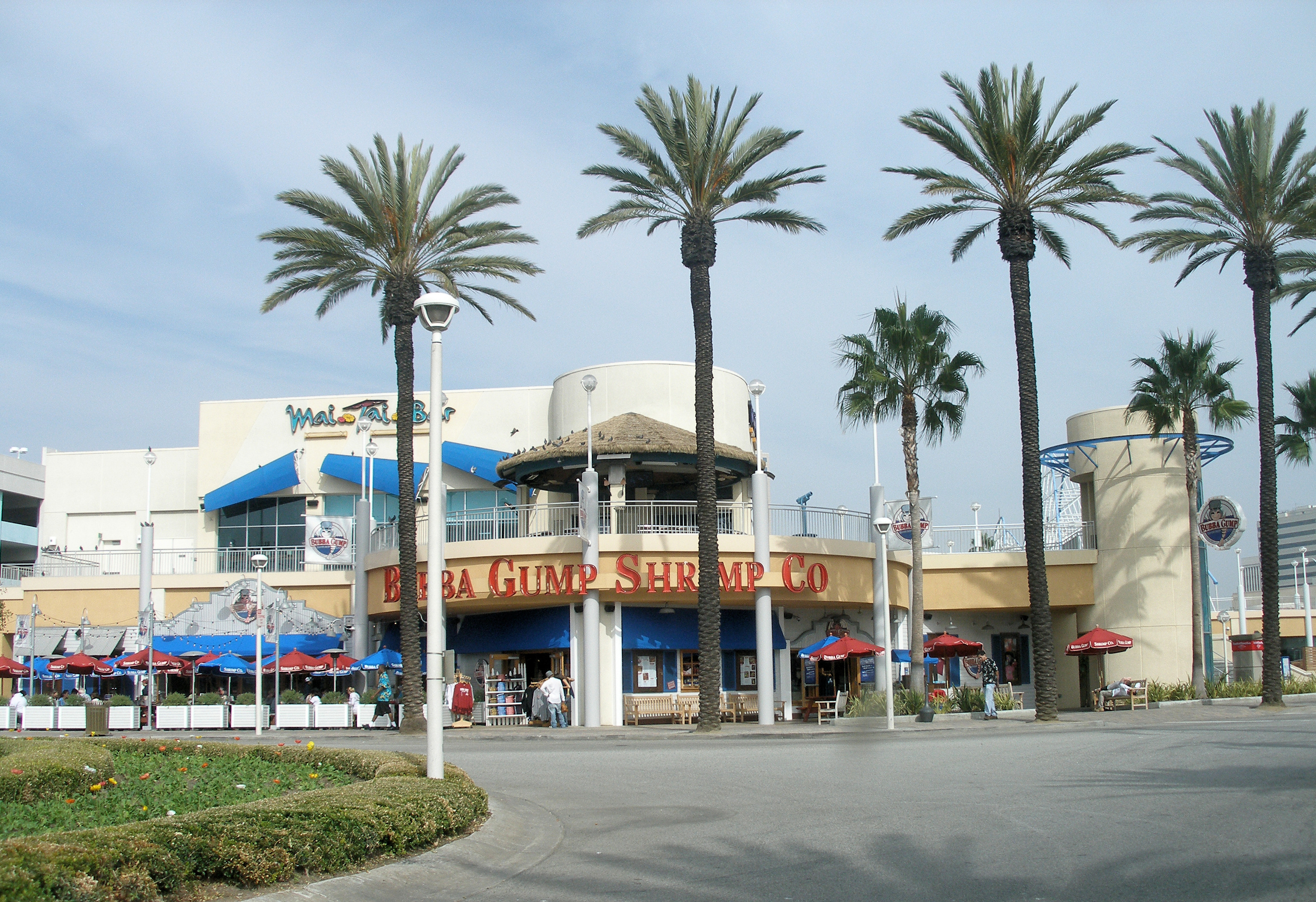 The Bubba Gump Shrimp Company theme restaurant in Long Beach. Photographed on November 4, 2007 by user Coolcaesar.